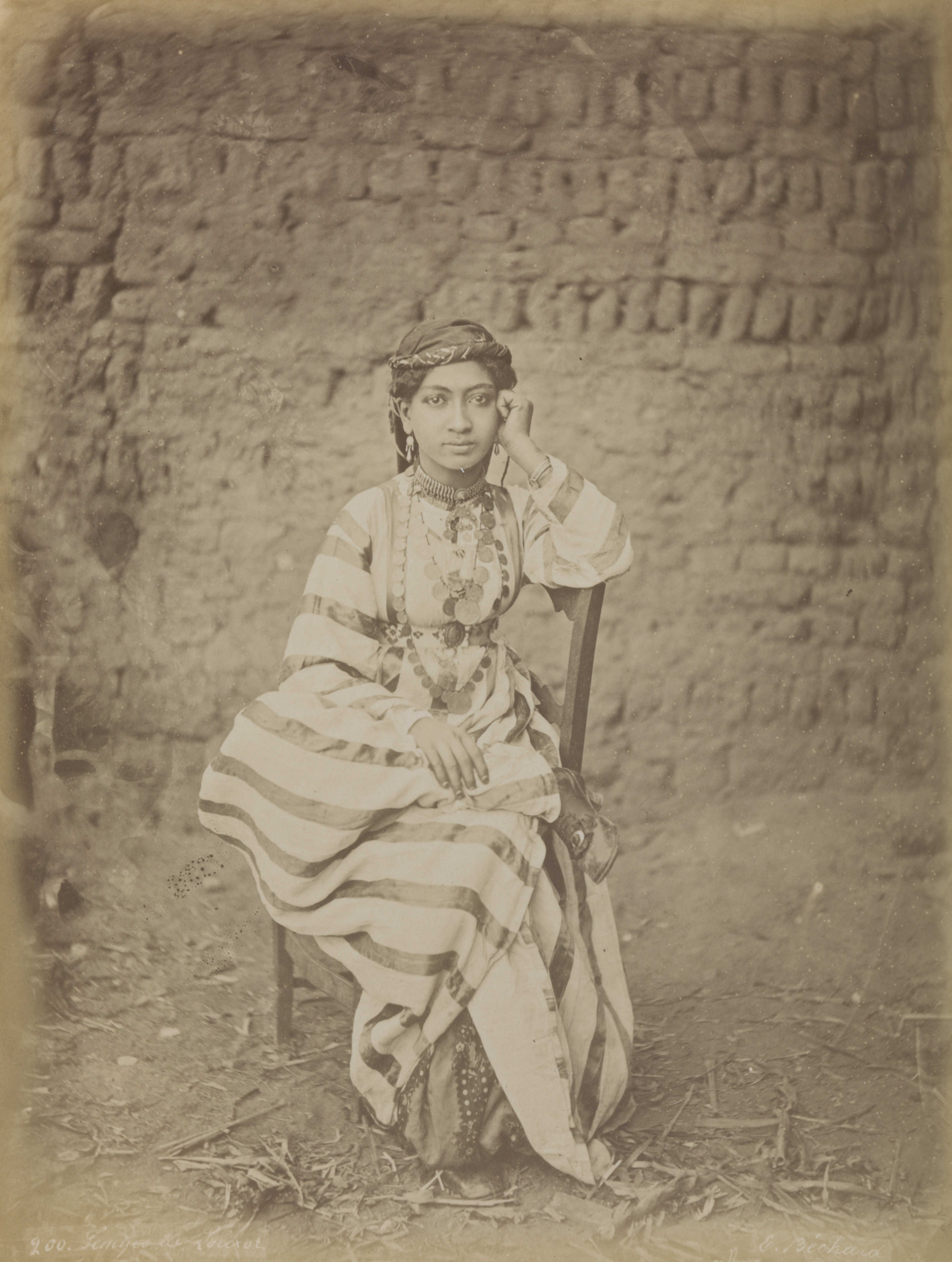 Émile Béchard (active 1870s & 80s); 'Femme du Luxor' (Woman from Luxor), about 1880; Albumen print; 24.8 x 19.6cm Don McCullin is one of Britain’s greatest photographers. For his latest project he has photographed archaeological remains around the Mediterranean. On a recent visit to the Museum, to coincide with the opening of a major exhibition of his work, Don made a personal selection of photographs from the National Media Museum's collection, revealing how these sites were recorded by earlier photographers such as Francis Frith and Maxime Du Camp. Don McCullin: "Today, if you try to photrograph women in the middle east it's very difficult. There must have been much more relaxed attitudes in those days to photographing women from Islamic backgrounds. You certainly wouldn't be allowed to get away with it today or have the cooperation. There's a very nice innocence about this pictute, an honesty. I could look at these portraits endlessly, they're so beautiful."